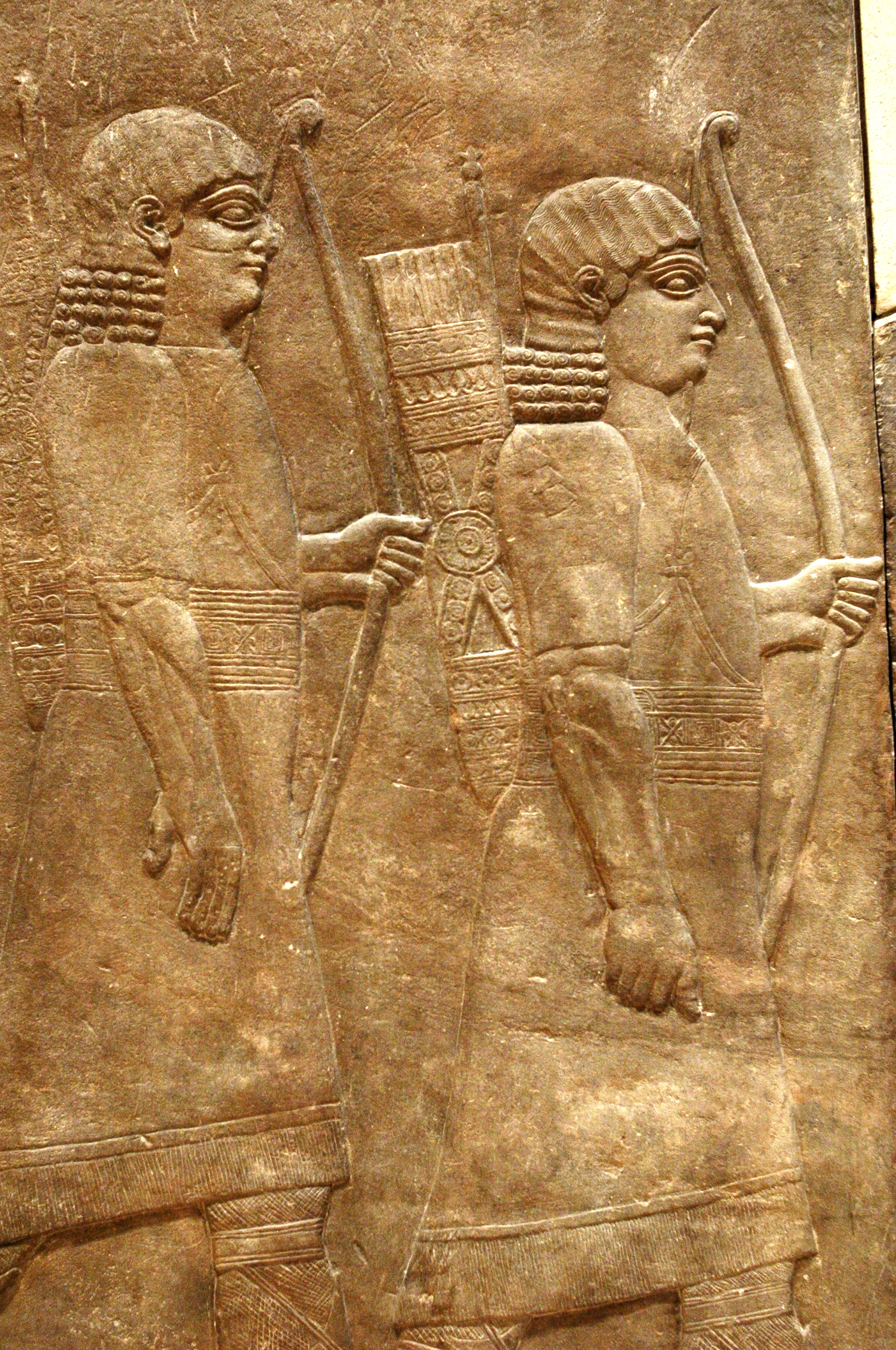 Ashurbanipal's guards preceding the wheeled throne bearers. Gypseum alabaster relief from Ashurpanipal's palace at Niniveh, ca. 645 BC.